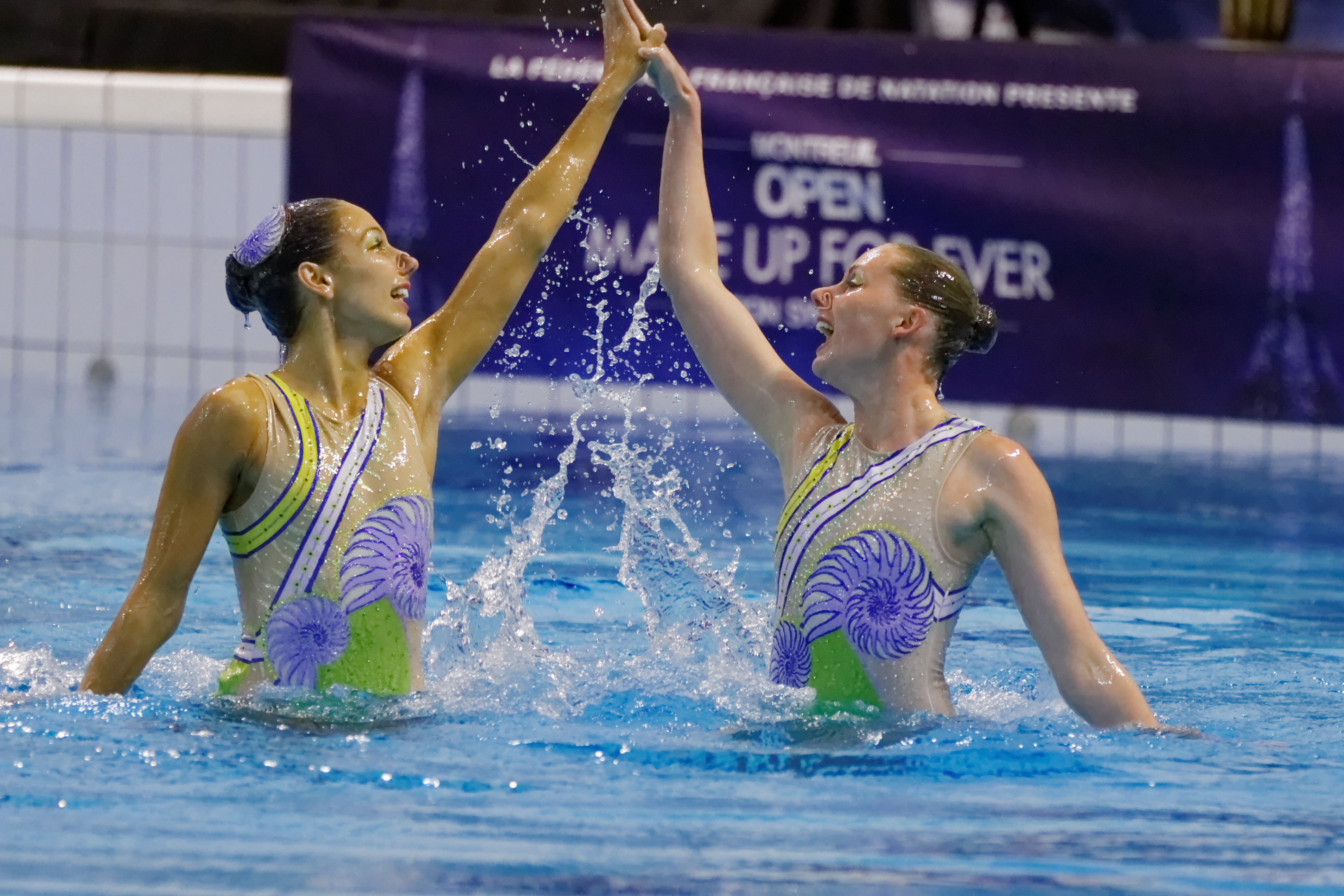 Olia Burtaev and Bianca Hammett, duet free routine (final), Open Make Up For Ever.